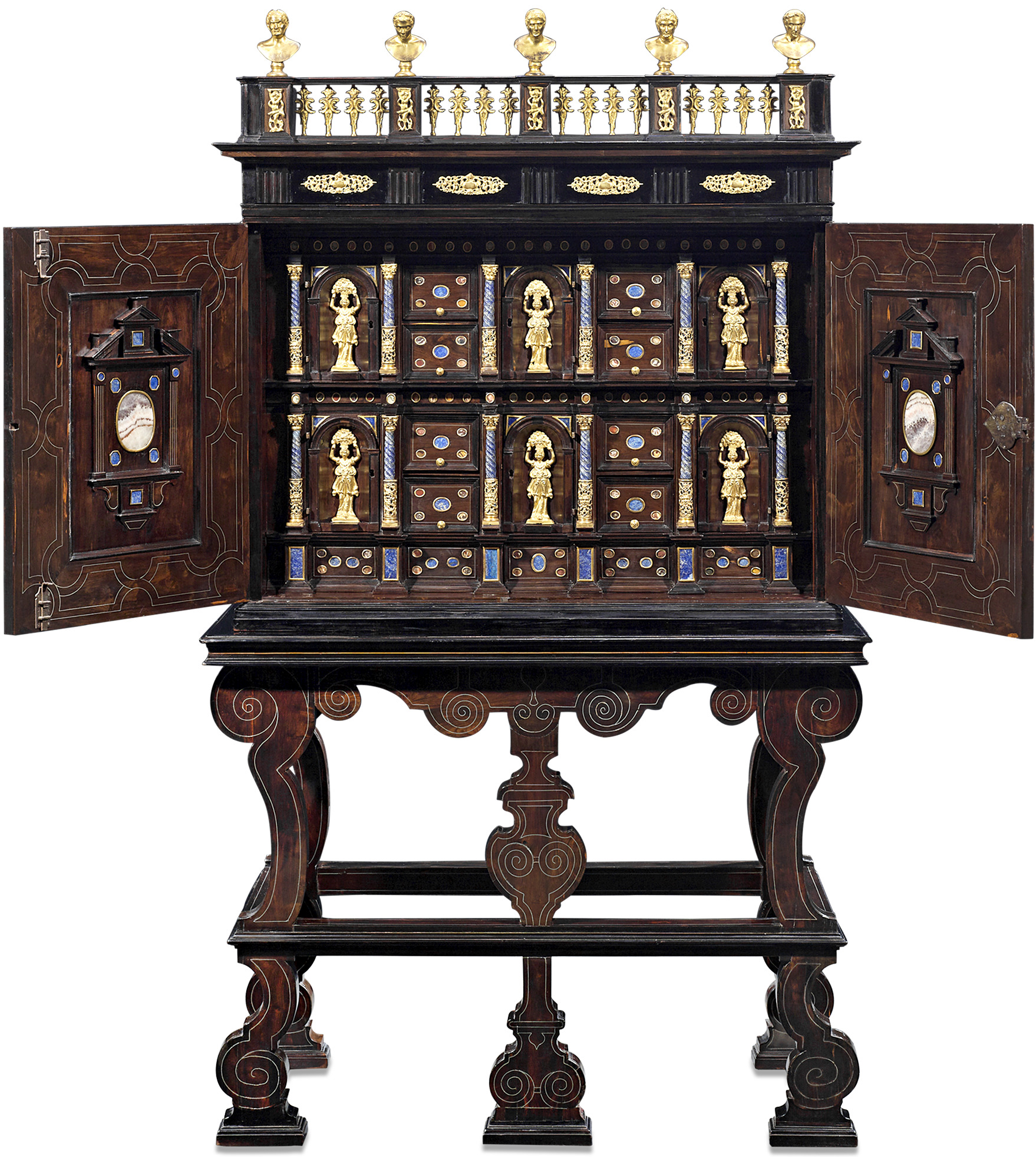 Italian Baroque-era cabinet of curiosities, circa 1635.